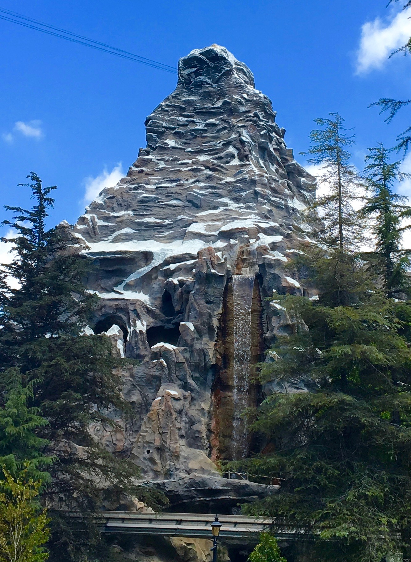 Matterhorn